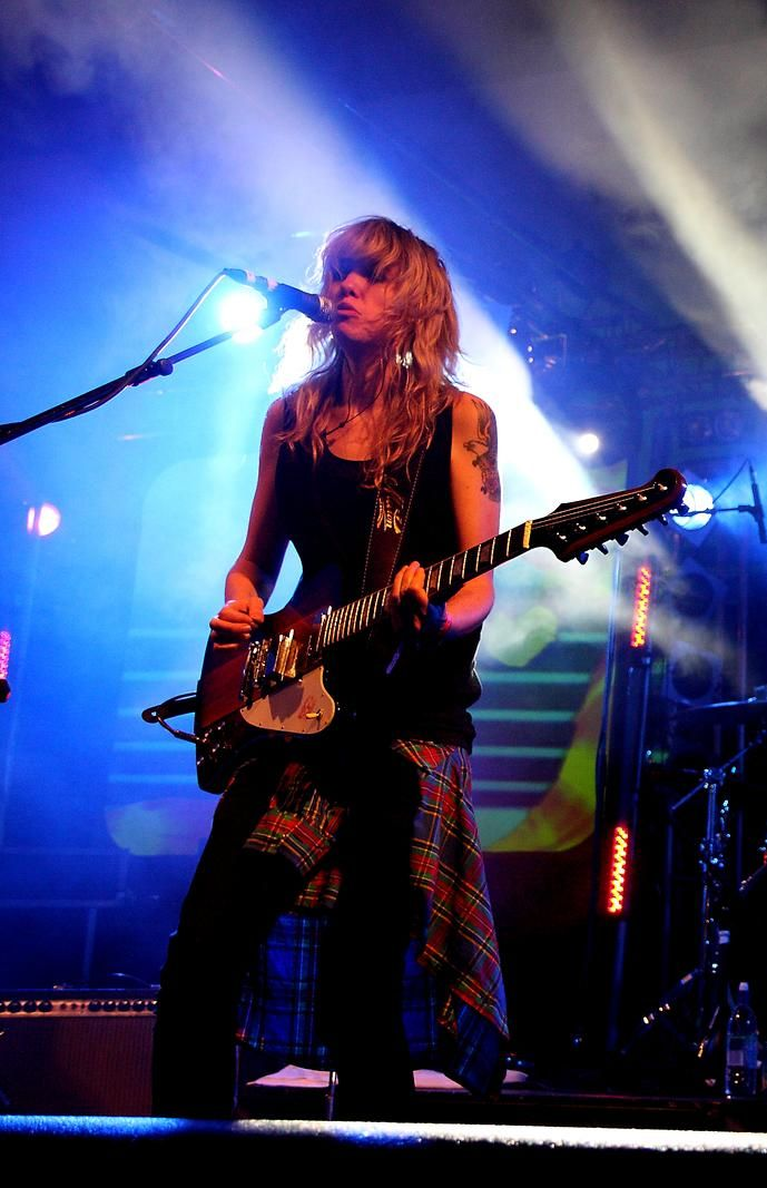 Ladyhawke playing live at the Rhythm & Vines 2008/2009.